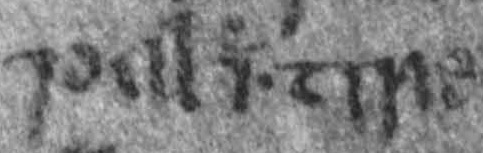 A photo of part of the MS 1467. This image shows Paul Mactire's name, as it appears on the manuscript. The image is black and white, and was taken under ultra-violet light, sometime in the 1970s [1].